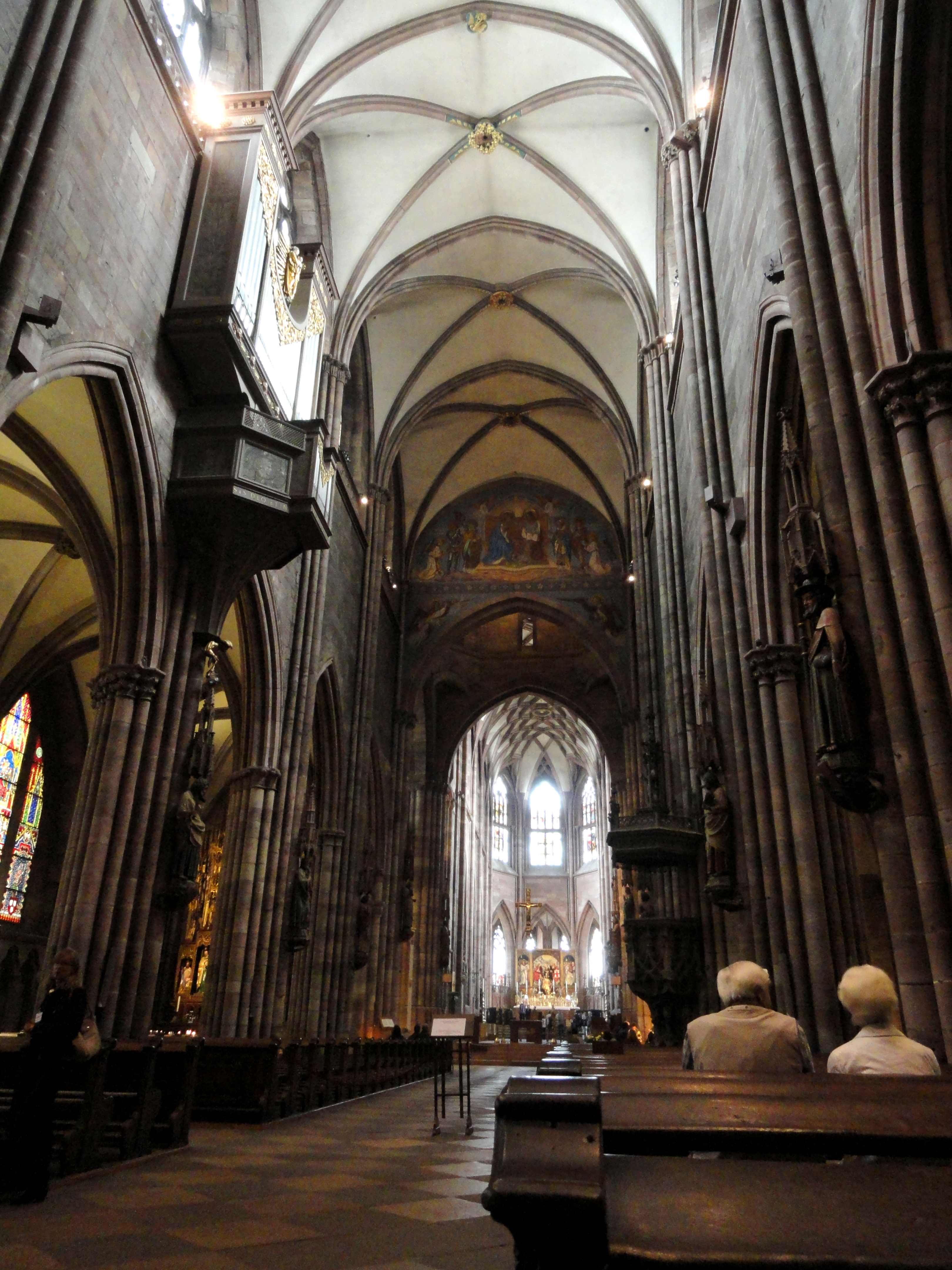 Interior of Freiburg Minster, Freiburg im Breisgau, Baden-Württemberg, Germany.